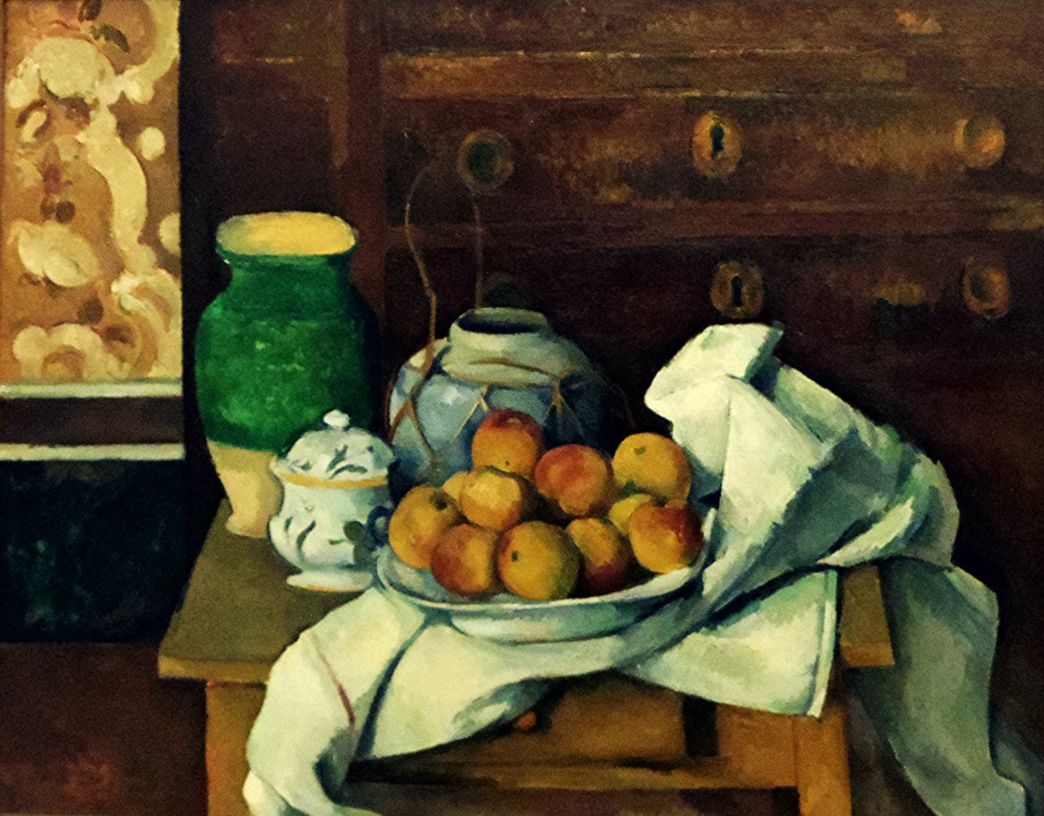 Cezanne, Still Life With Commode.